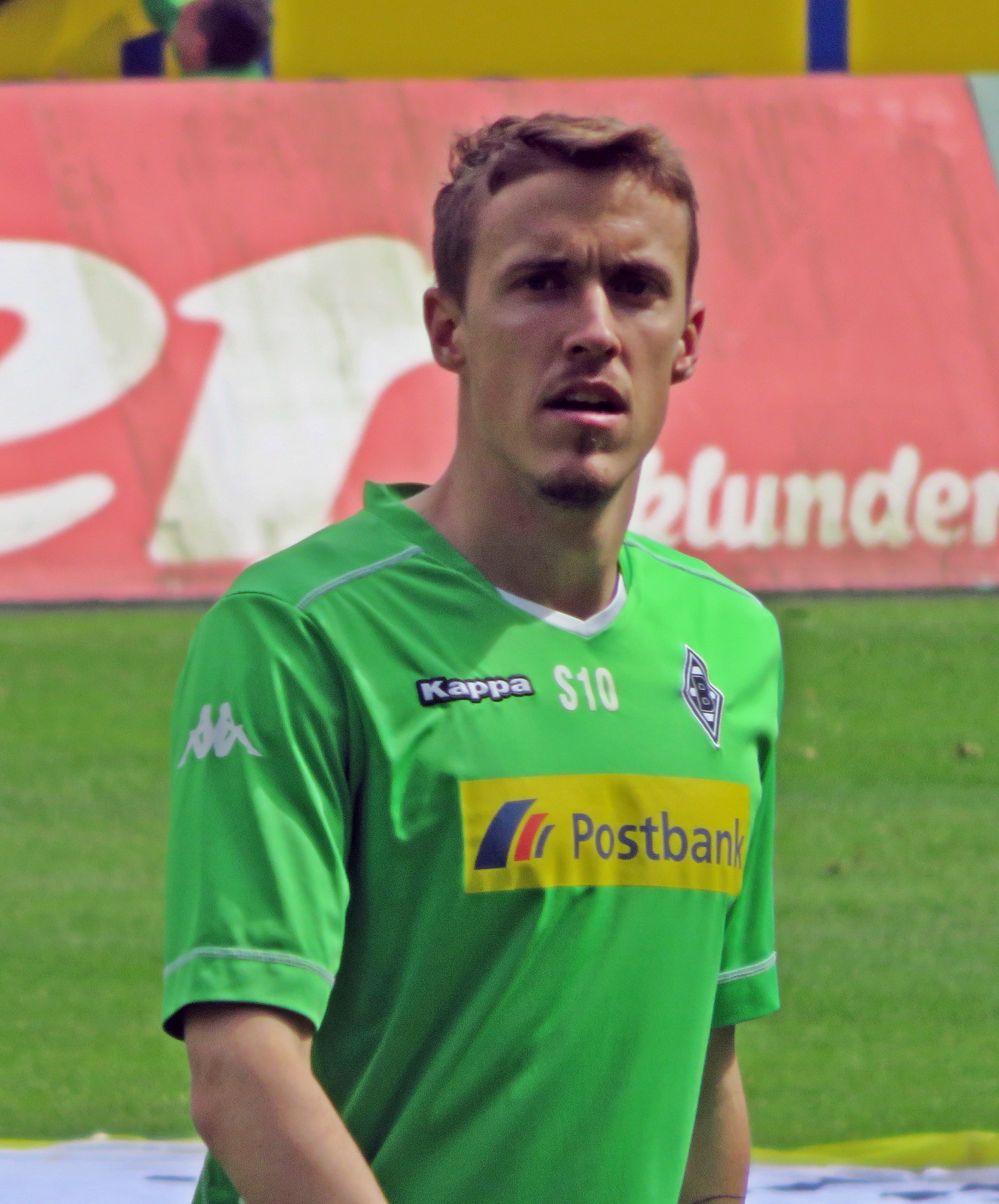 Max Kruse